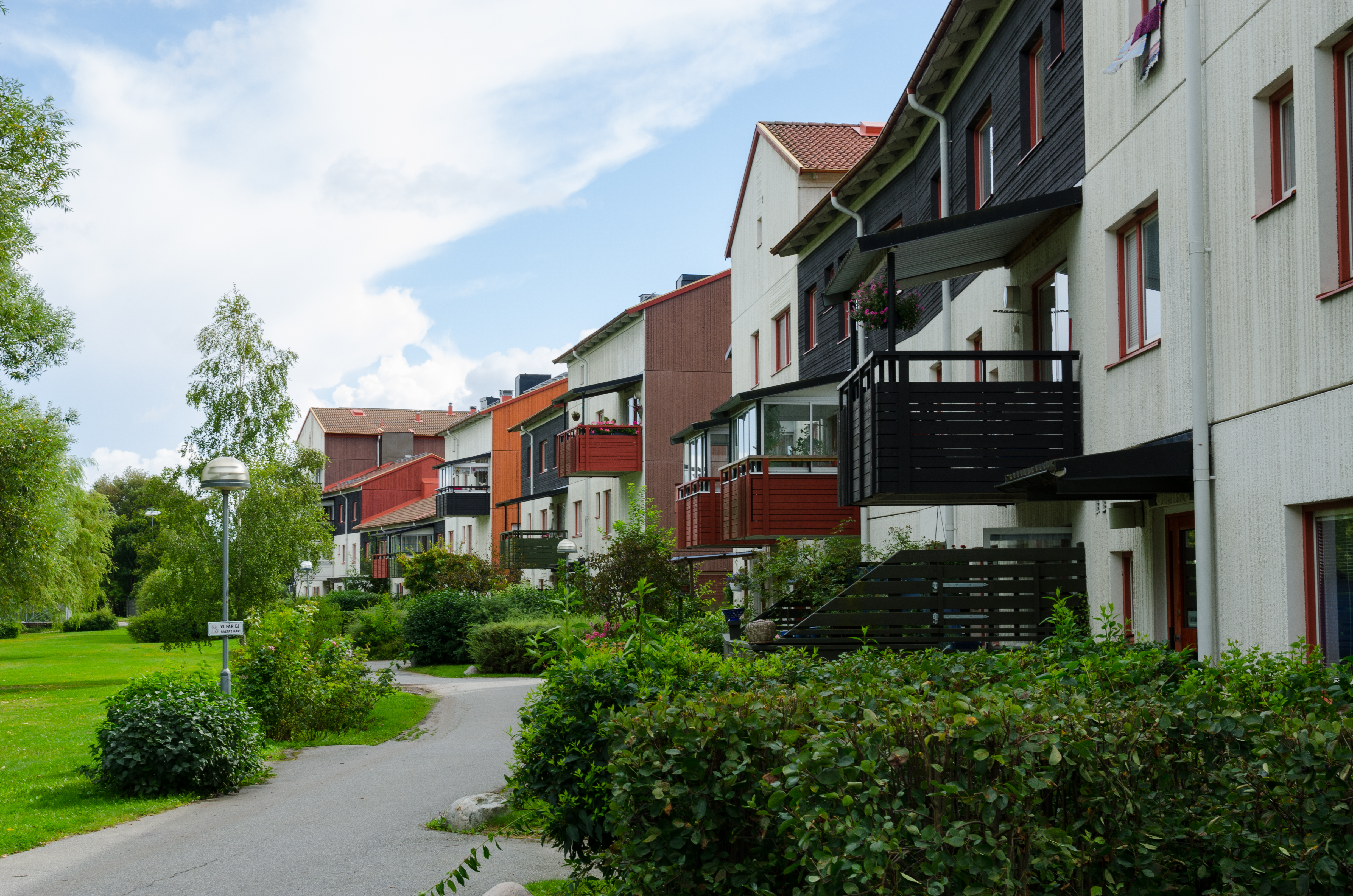 Ekerö centrum, Ekerö Municipality, Stockholm County, Sweden. Completed 1991. Architect Ralph Erskine.